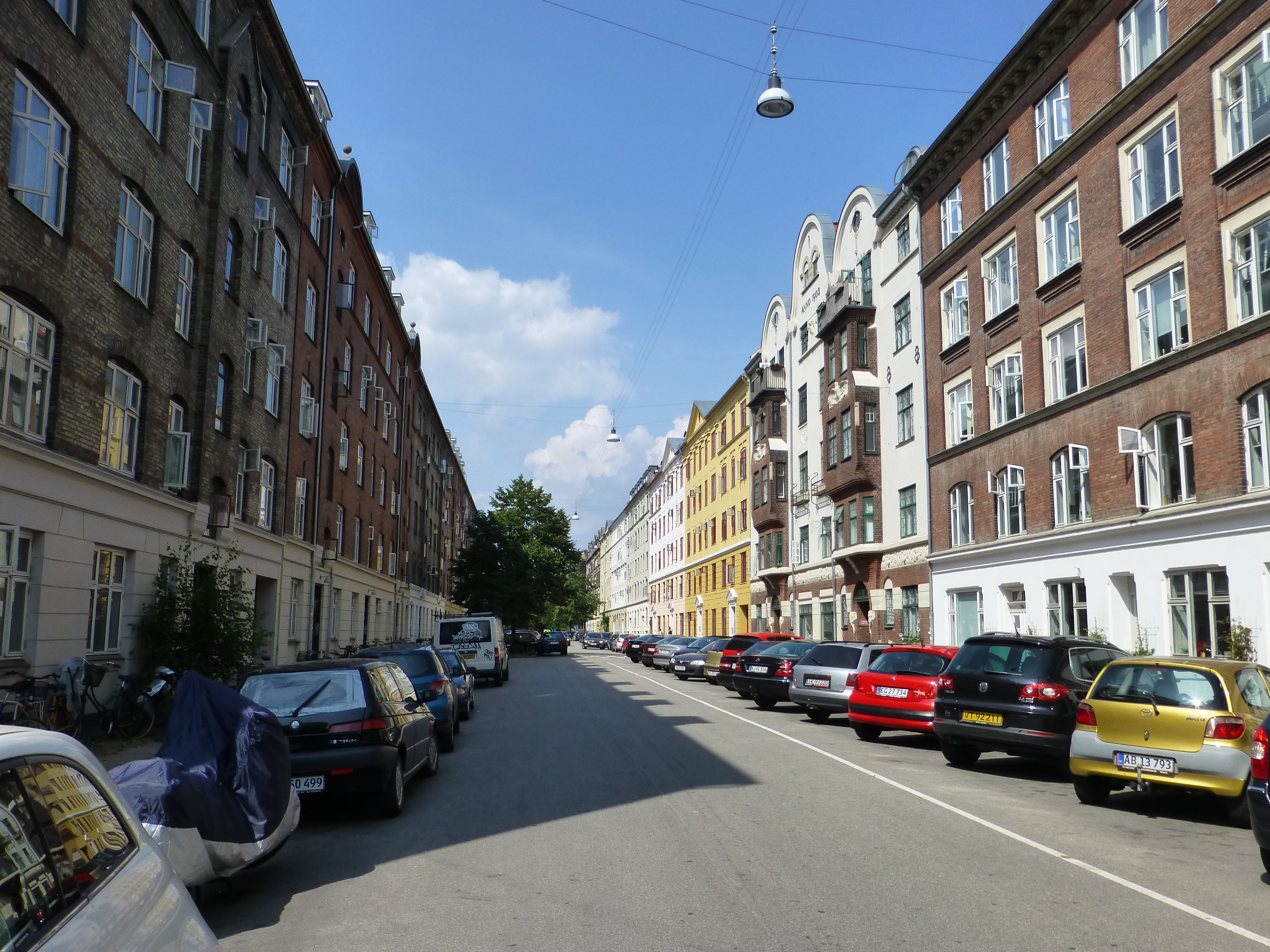 The street Husumgade in Nørrebro in Copenhagen.